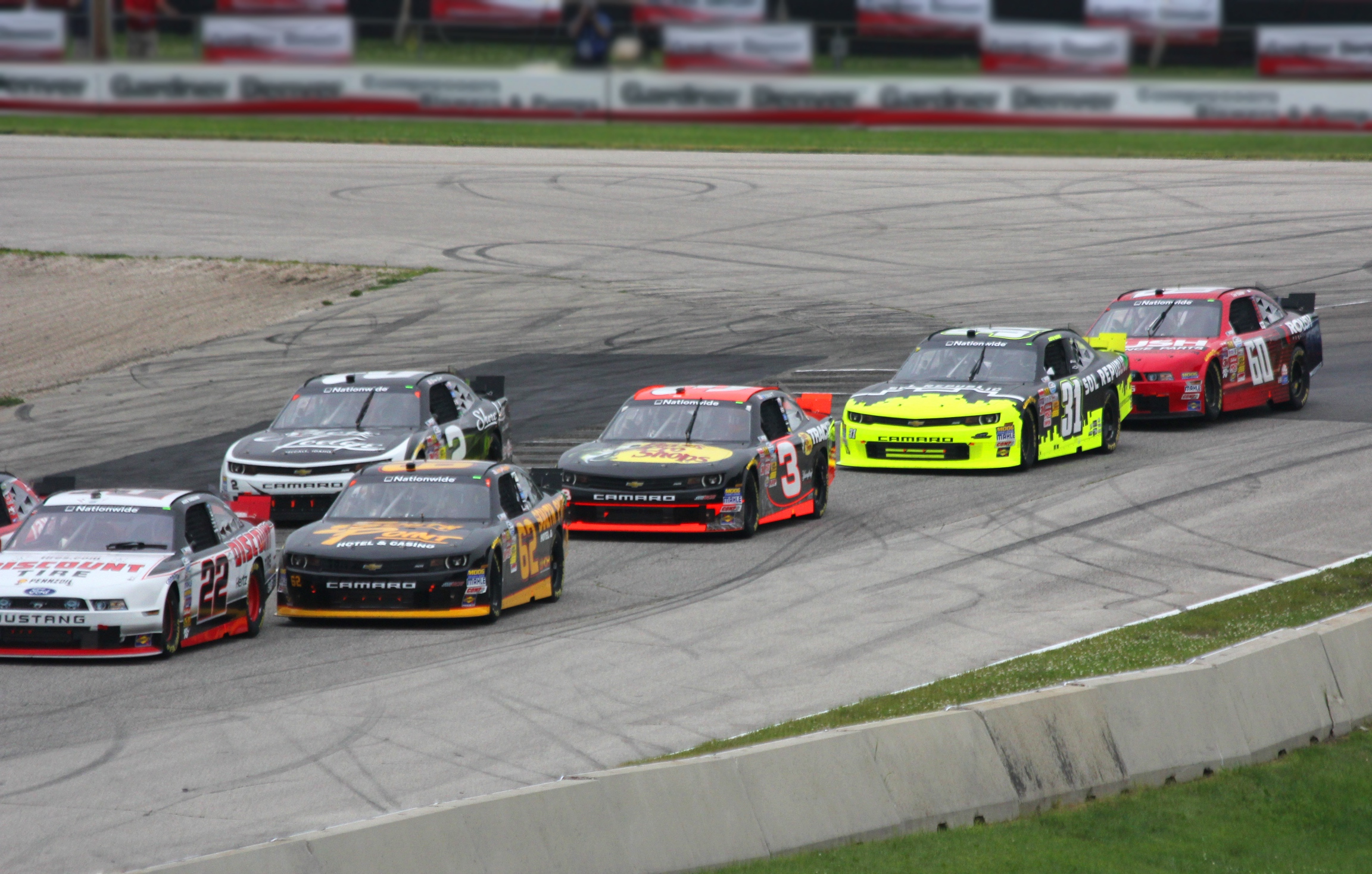 Lead cars during the 2014 Gardner Denver 200 race of NASCAR Nationwide Series cars at Road America. In the field - #22 Alex Tagliani, #62 Brendan Gaughan, #2 Brian Scott, #3 Ty Dillon, #31 Justin Marks, and #60 Chris Buescher.